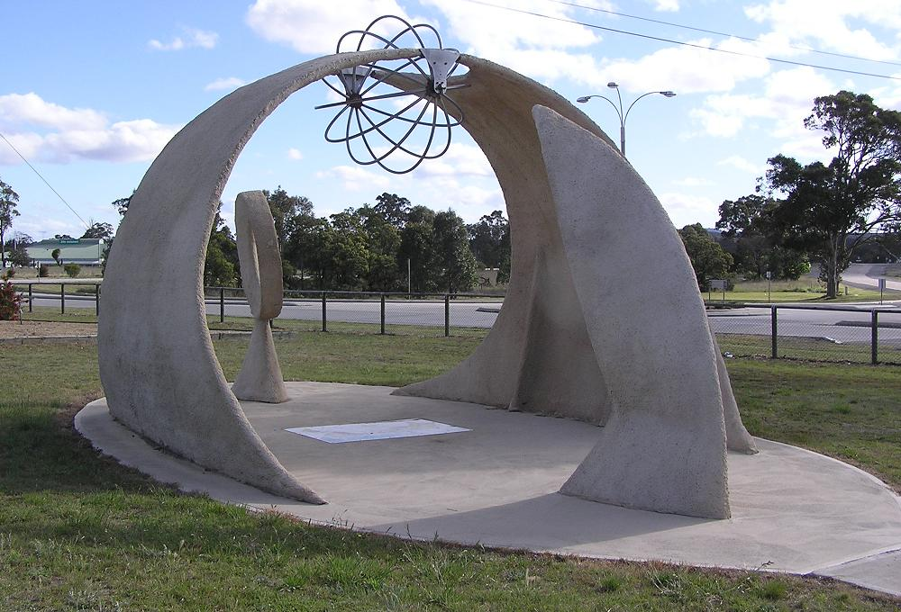 Marulan, Australia, lies on 150 East longitude. This artistic monument was erected in 2002 beside the Hume Highway where George Street runs north into the town. It depicts the major longitude lines of the world as a rotating structure above a map in the pavement showing the 150E line, with two artistic representations along the axis.